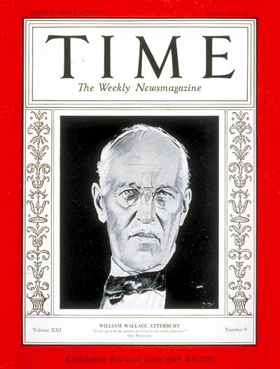 William Wallace Atterbury on the cover of Time Magazine in 1933.